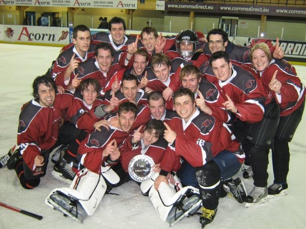 A photograph of the 2009 Celtic Plate Winners, the Cardiff Redhawks B